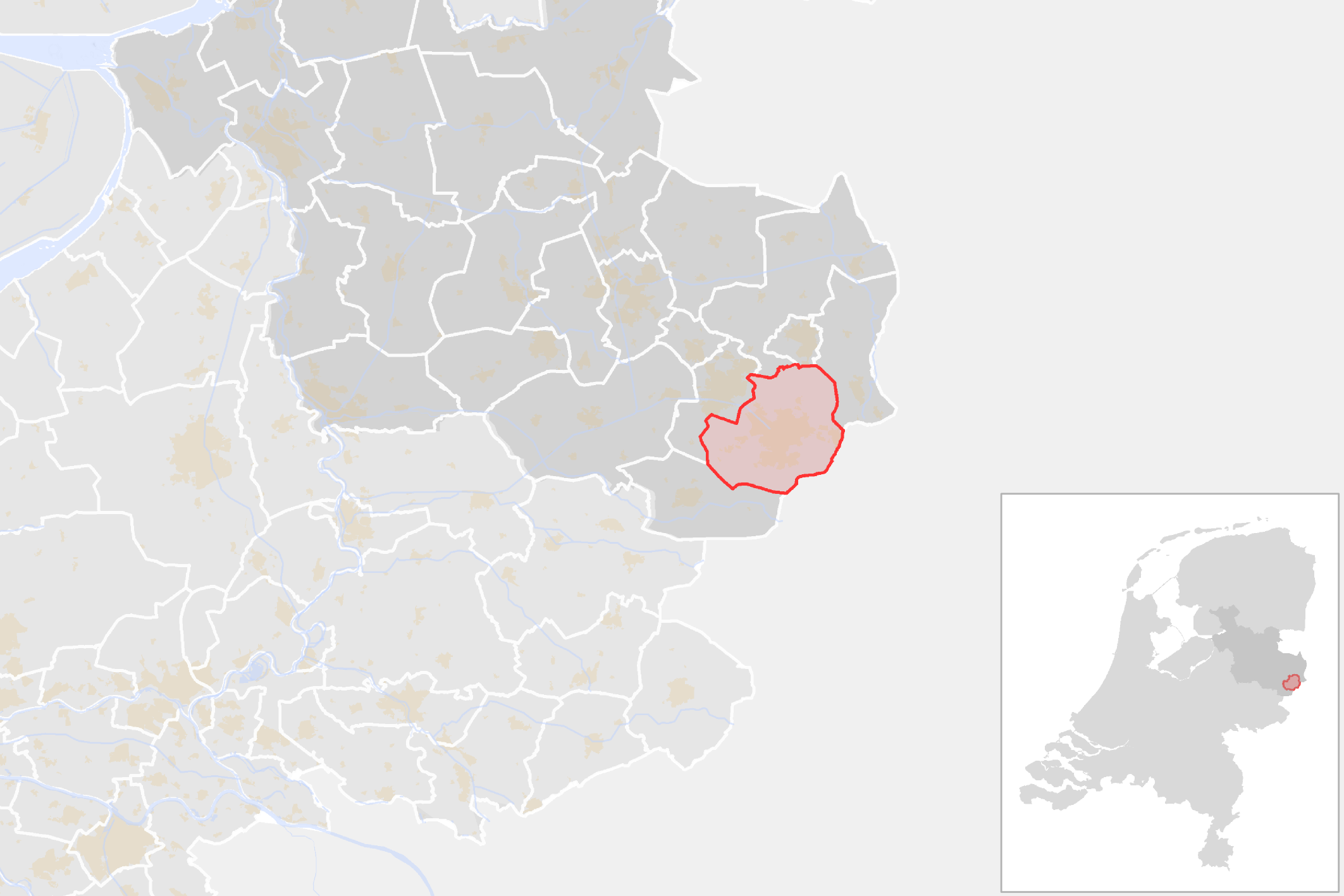 Locator map showing municipality boundary of one of the 390 Dutch municipalities (as of 2016)